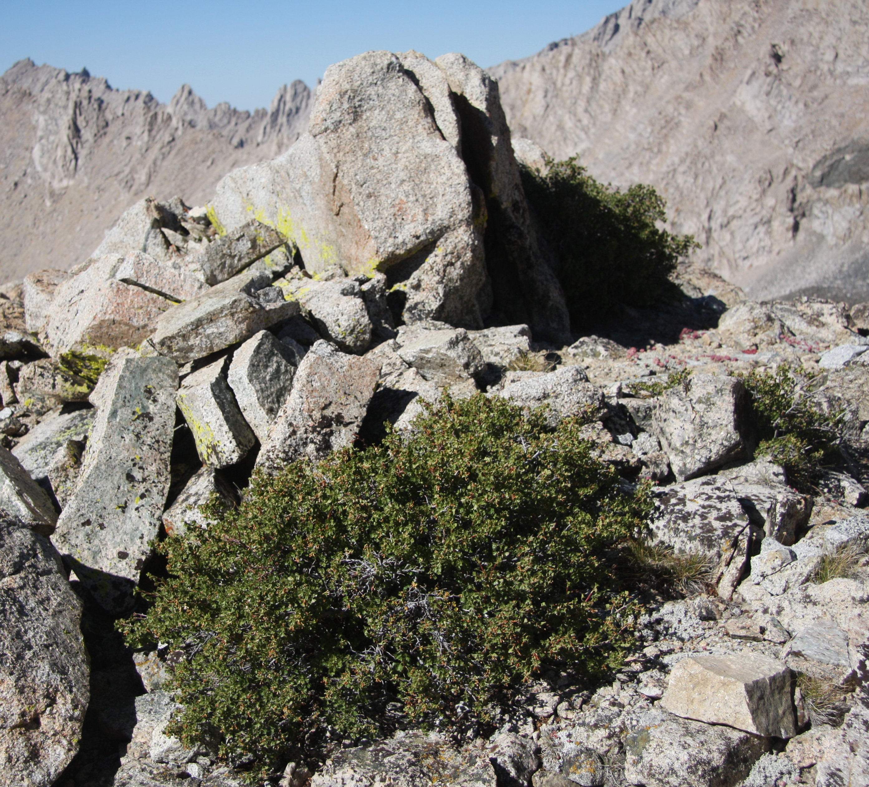 Wax currant bushes (Ribes cereum) at about 3,800 m (12,500 ft) North of Forester Pass. Kings Canyon National Park, Sirra Nevada USA.